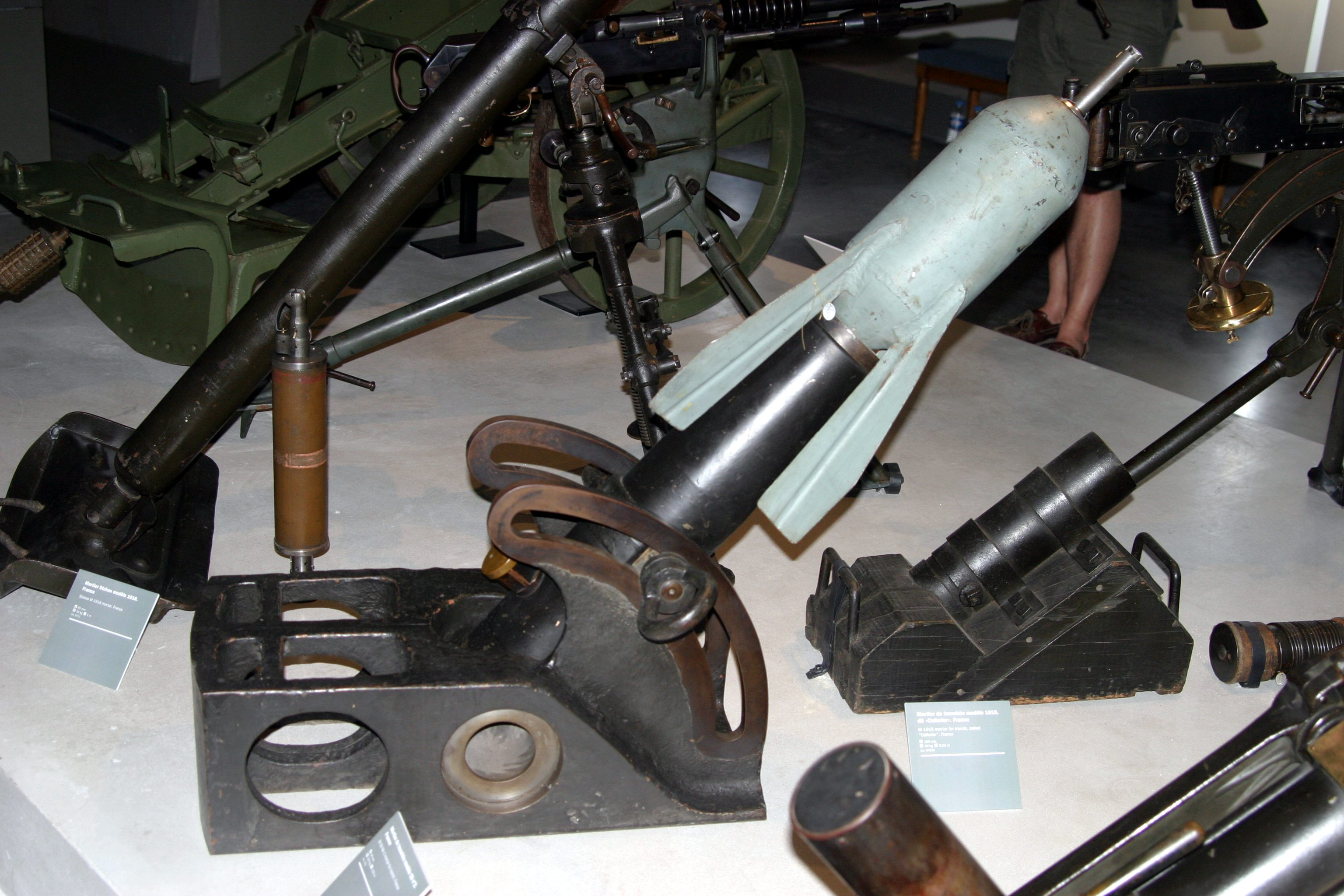 Foreground : French Mortier de 58 mm type 2 of WWI with 20 kg A.L.S. bomb loaded (blue). Background, left : British 3 inch Stokes mortar of WWI, with bomb standing upright on floor (brown). This image was taken at the Musée de l'Armée, Paris. See also File:Mortier de 58 mm type 2 at Musée de l'Armée.jpg for closeup clip of the Mortier de 58 mm type 2.